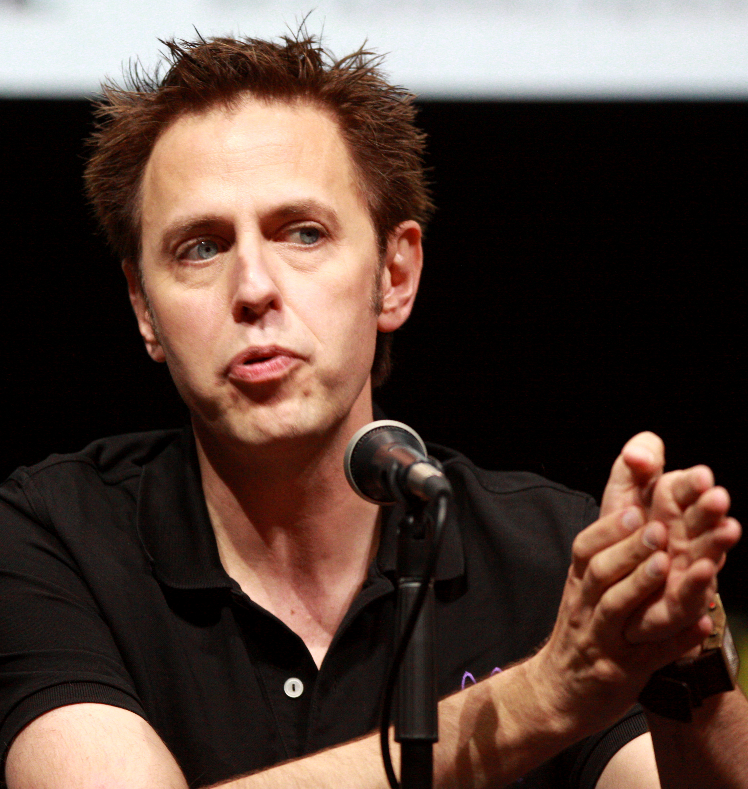 James Gunn at the 2013 San Diego Comic Con International in San Diego, California.